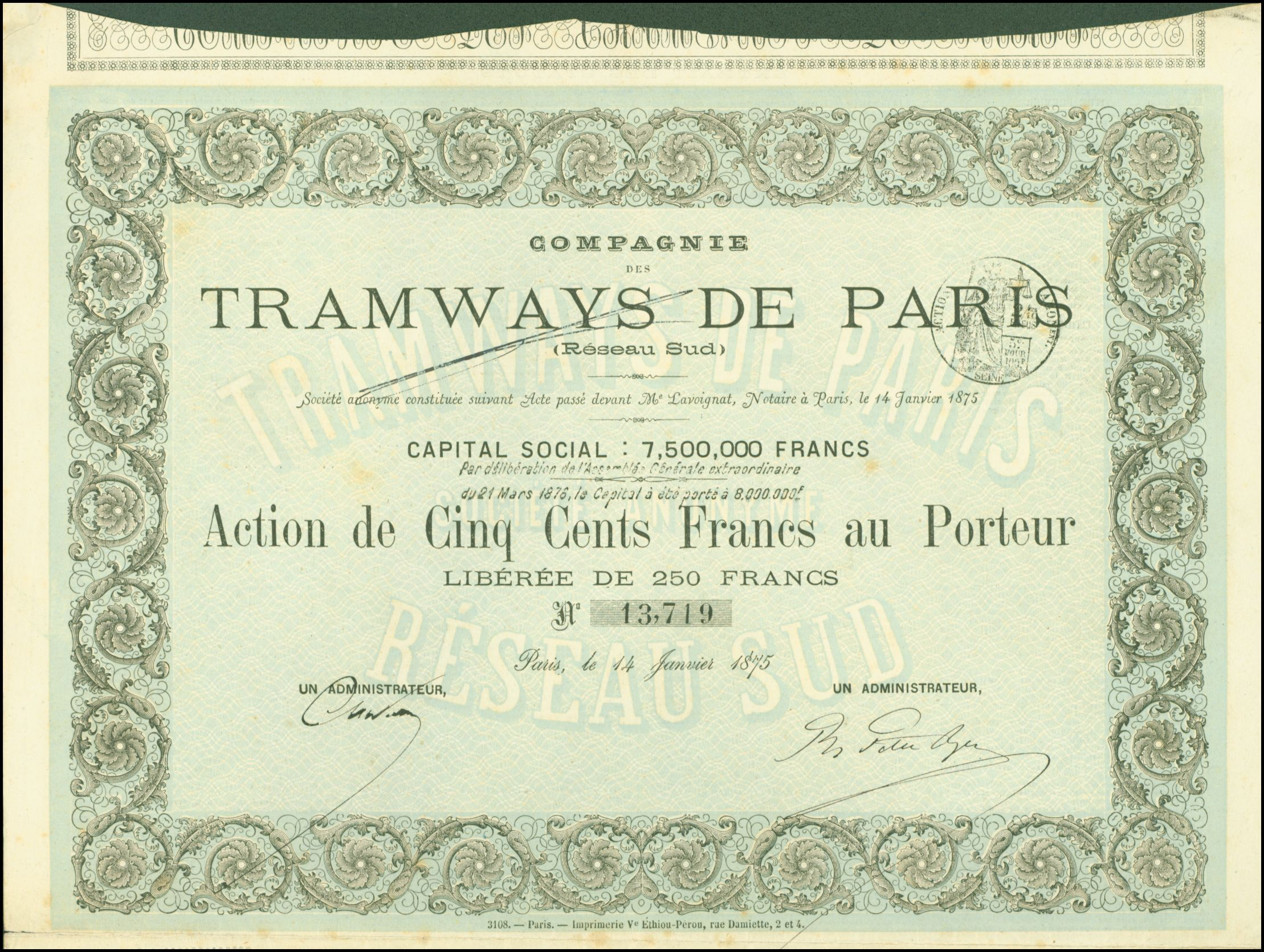 Share of the Compagnie des Tramways de Paris (Réseau Sud), issued 14. January 1875